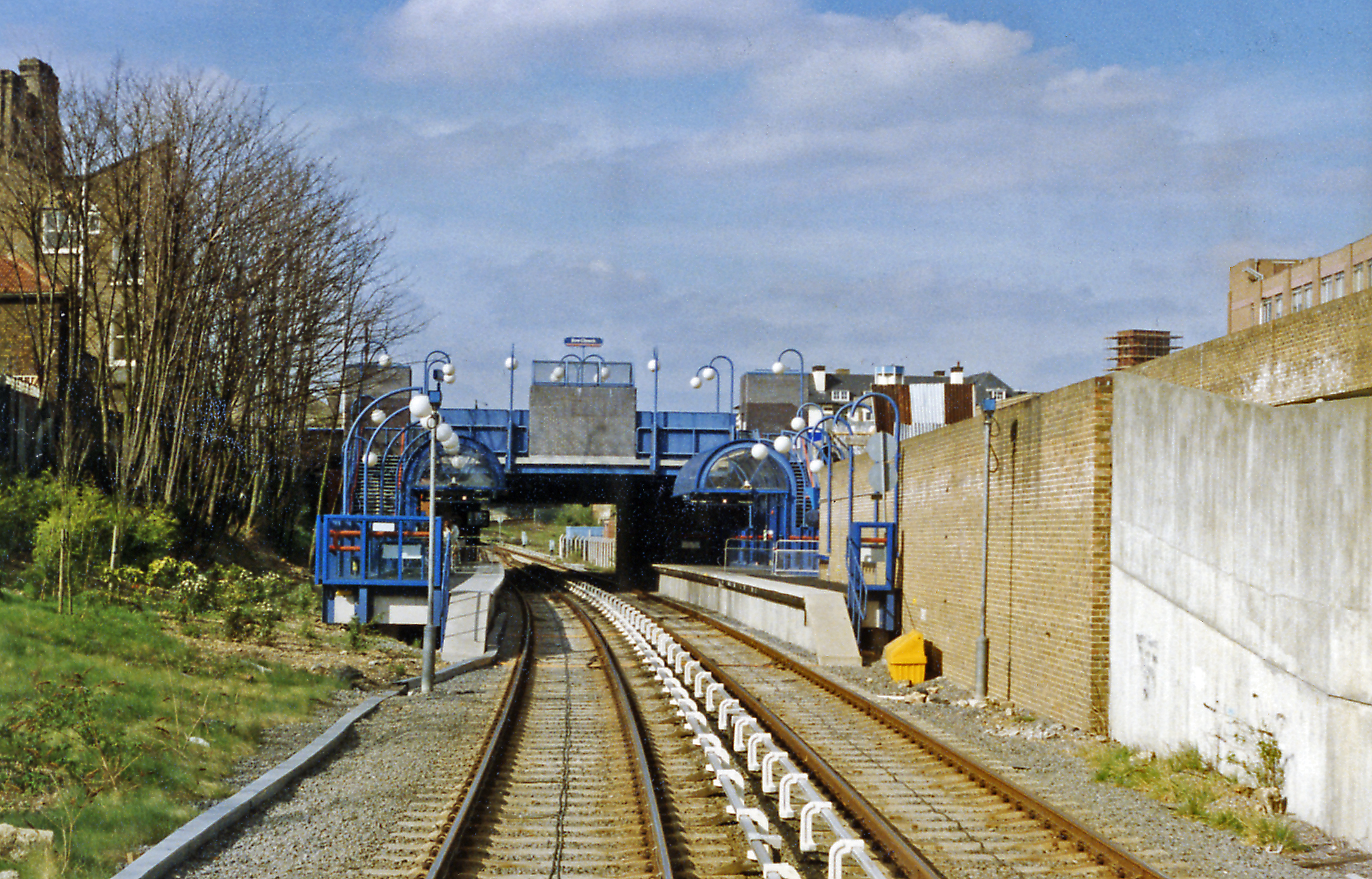 Bow Church station, DLR 1990. View northward, towards Stratford: DLR Poplar - Stratford line, opened 31/8/87. Bow station on the ex-North London Dalston Junction - Poplar line was situated here, but passenger rail services on the line ceased from 15/5/44 - to make way for Overlord (D-Day) freight to the Docks, with buses substituted until 23/4/45. Freight traffic continued on a declining scale into the 1980s.